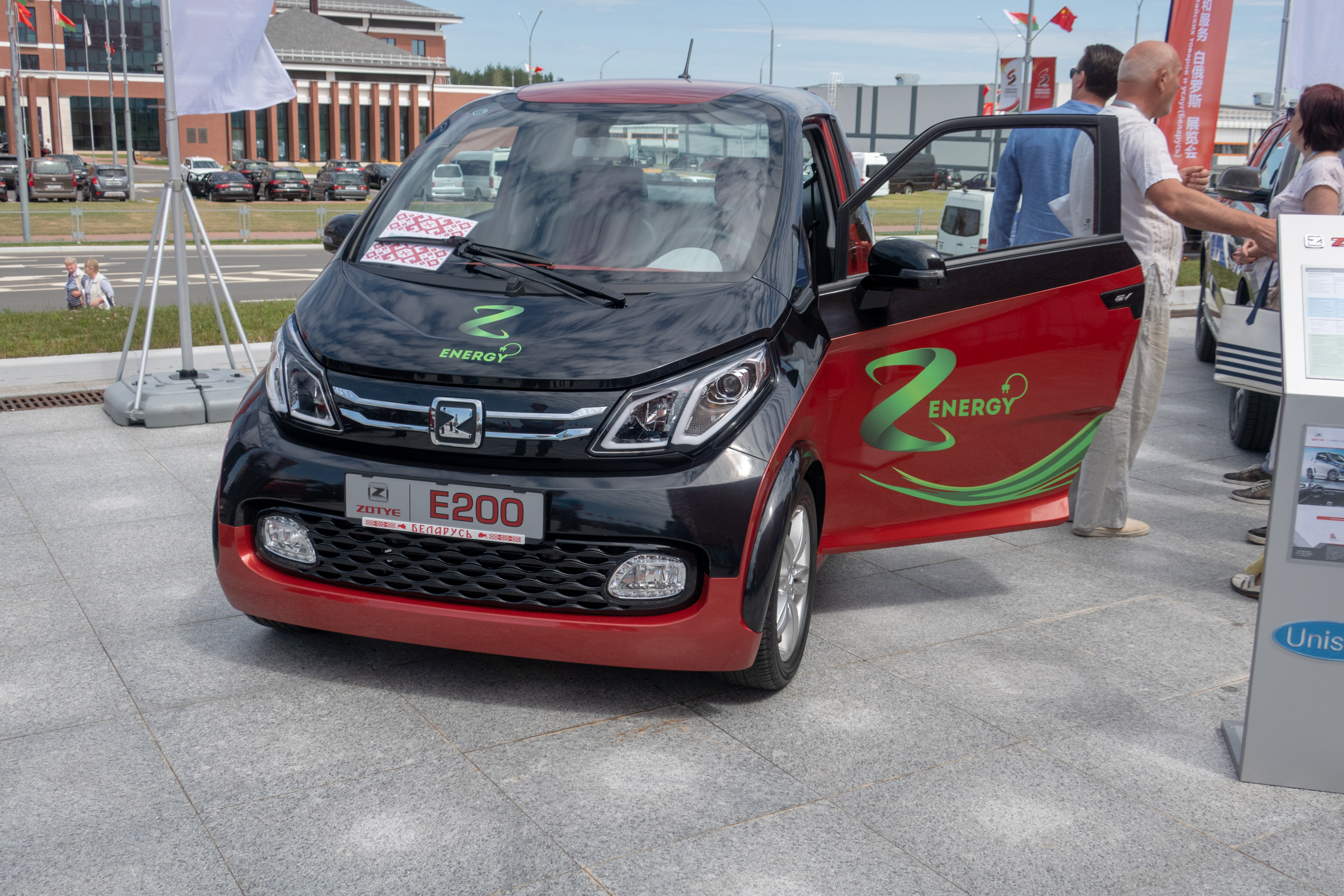 Zotye E200 produced by Belarusian "Unison" manufacturer